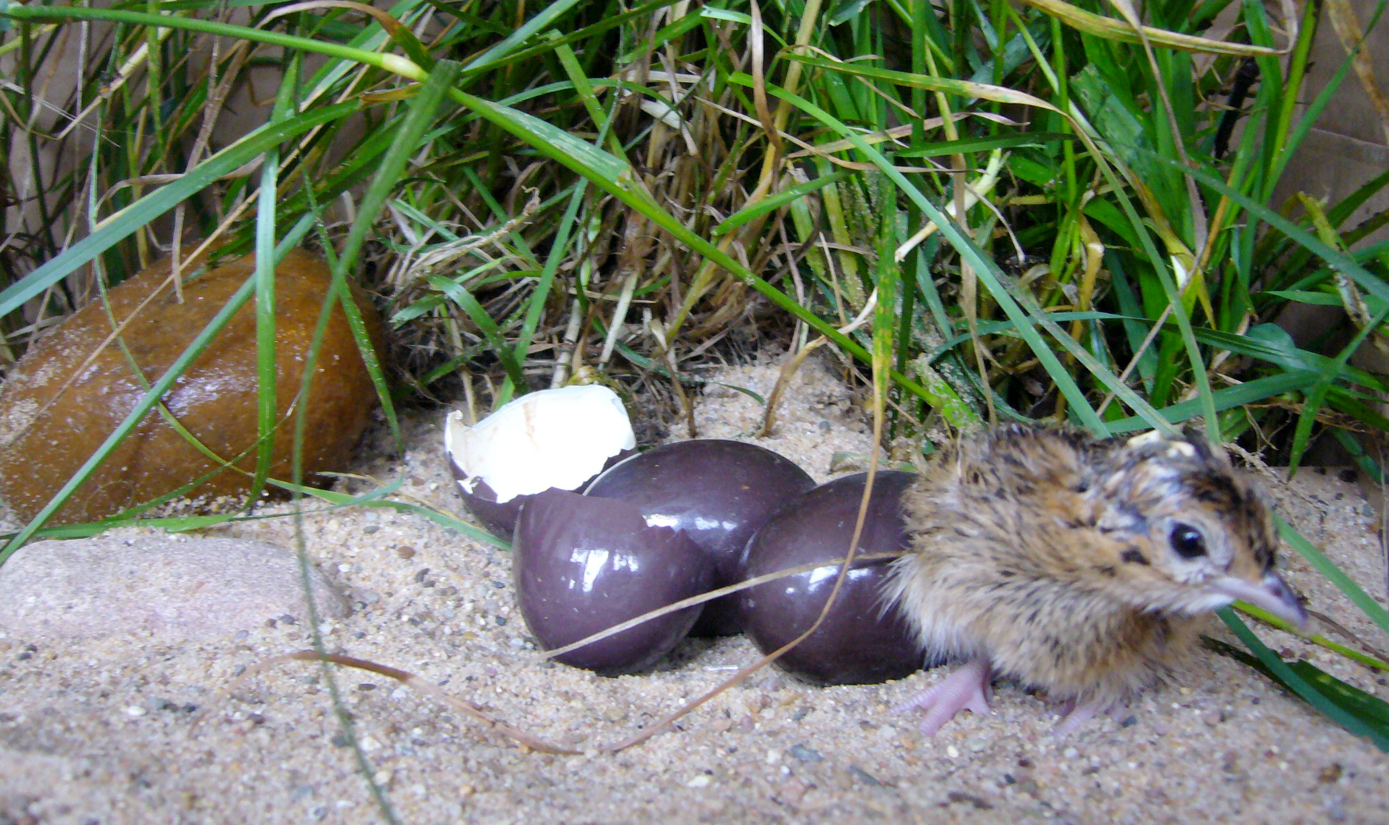 Picture of nothoprocta perdicaria